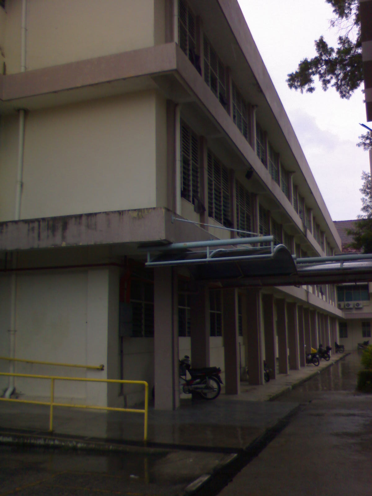 This is Block B of Chung Ling (National Type) High School in Penang. It was completed in the early 1980s and the photo was taken from the rear.